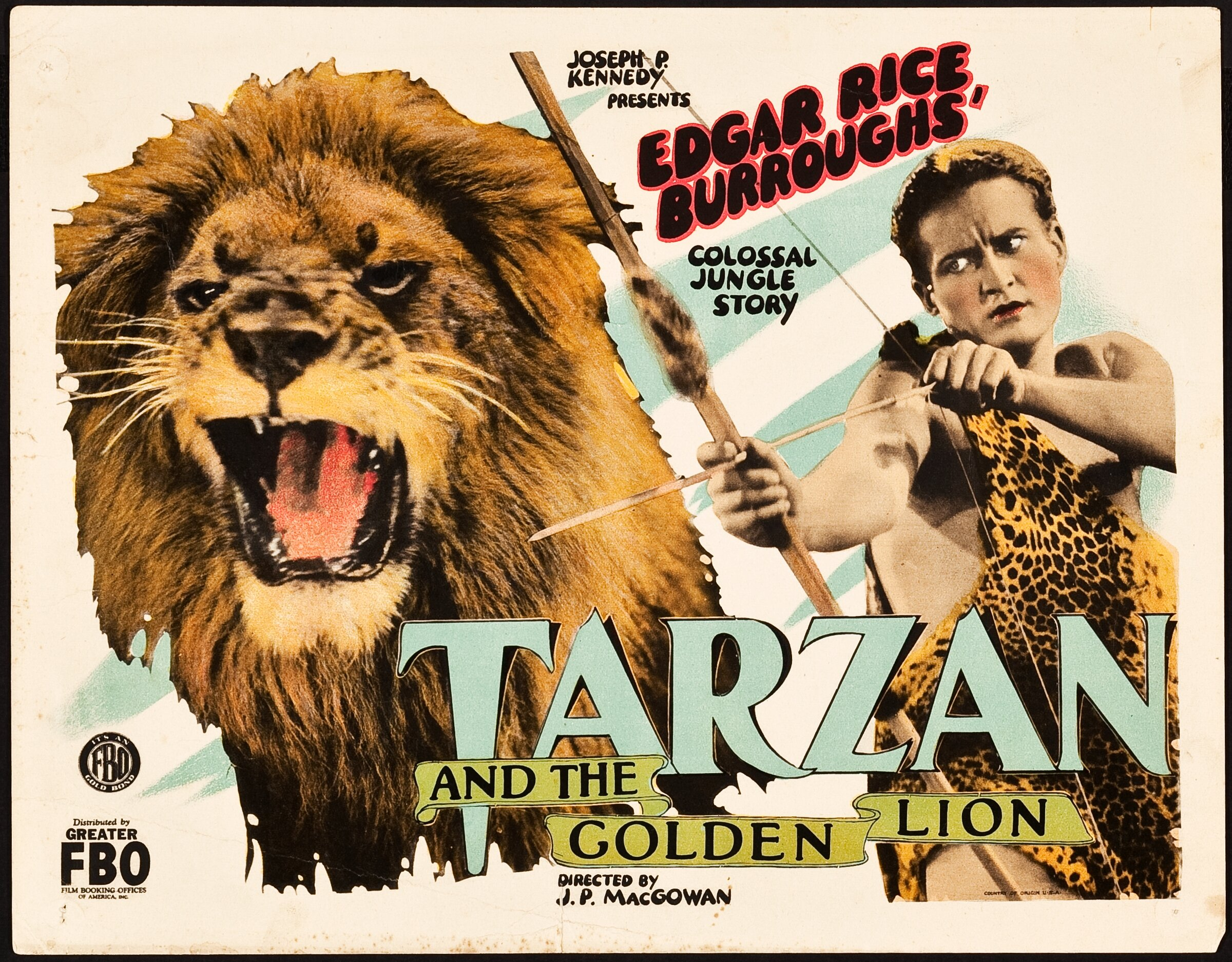 Low-resolution image of poster for FBO feature Tarzan and the Golden Lion (1927).